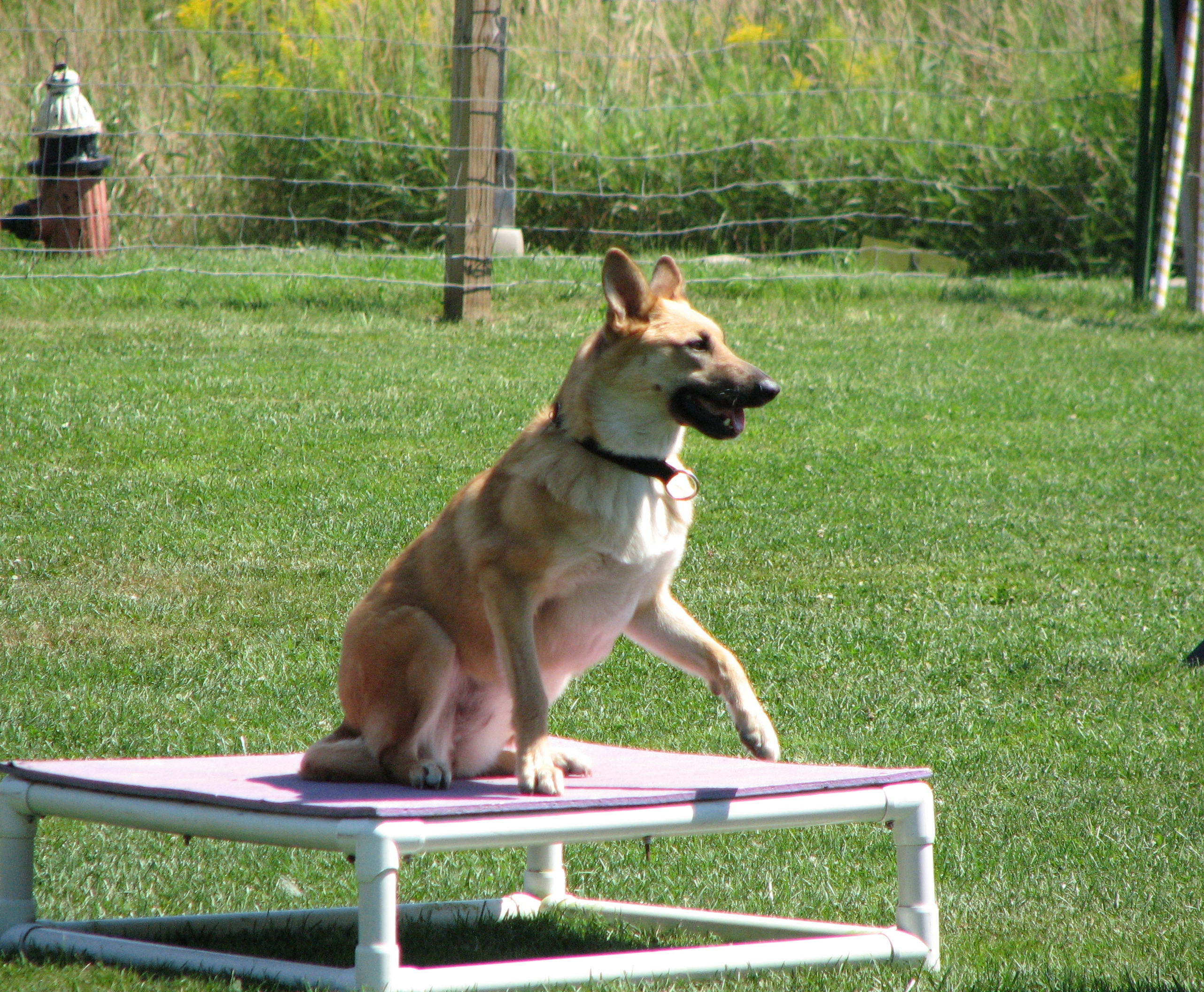 Mahoosuc finishing the five-second hold. She and Jess raced through the course. Chinook